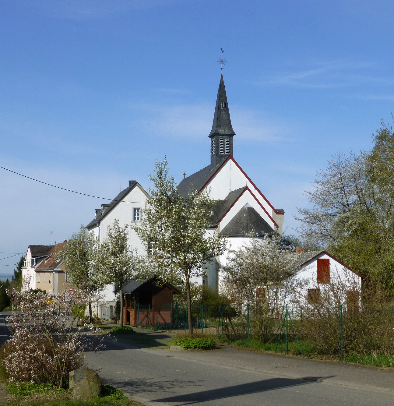 Church in Pohl, road 260, south-east from Nassau (Lahn), Rhineland-Palatinate.